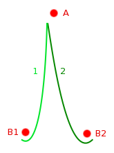 Simple sketch of a gate used instead of a downwind mark. Mark A is the upwind mark for the previous leg, marks B1 and B2 are the gate's marks: boats shall round either mark B1 or B2 in order to tack upwind again